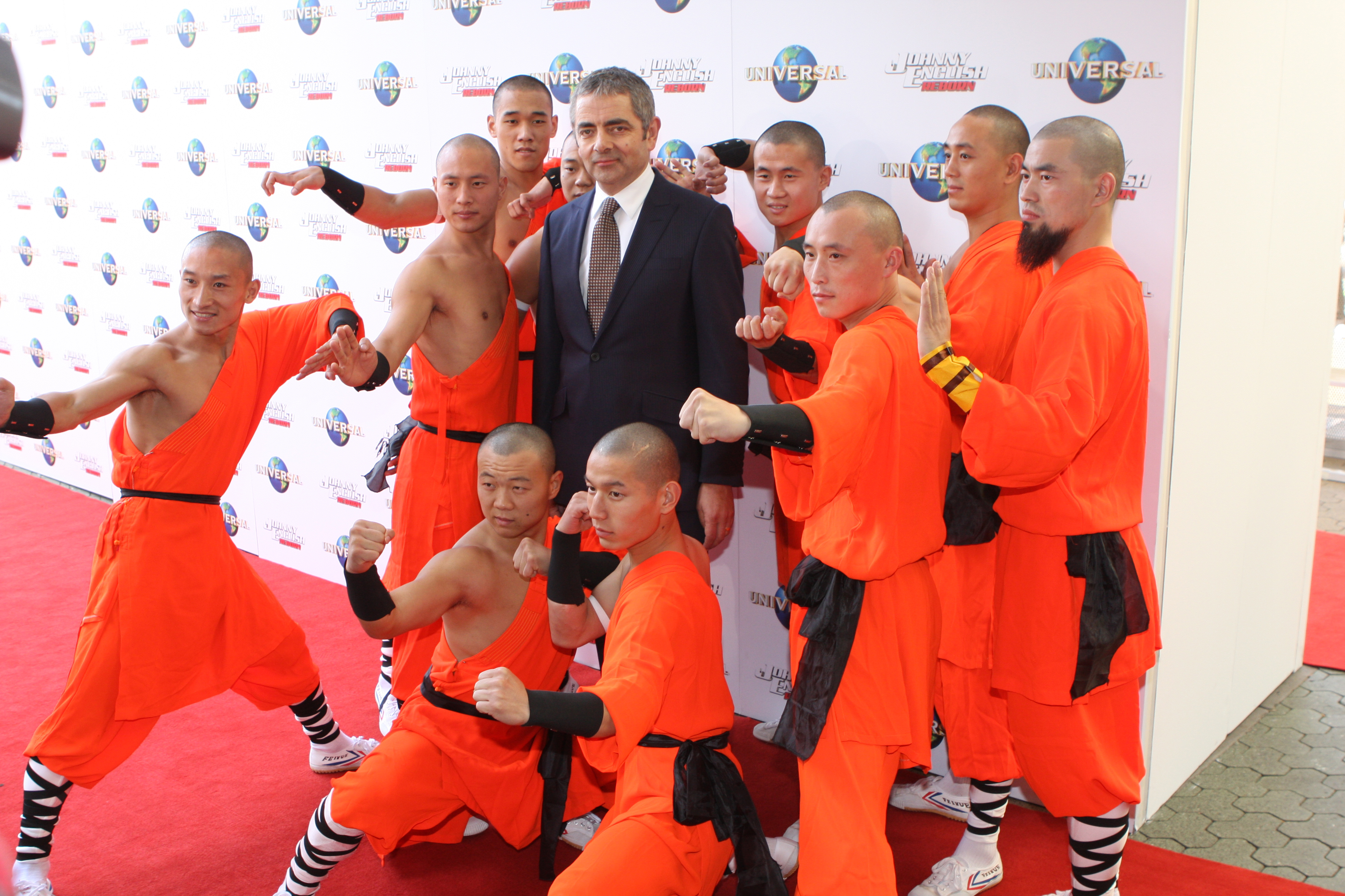 Johnny English Reborn Movie Premiere Rowan Atkinson